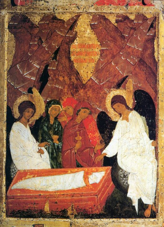 Icon of saint womens who went to Tomb of Christ